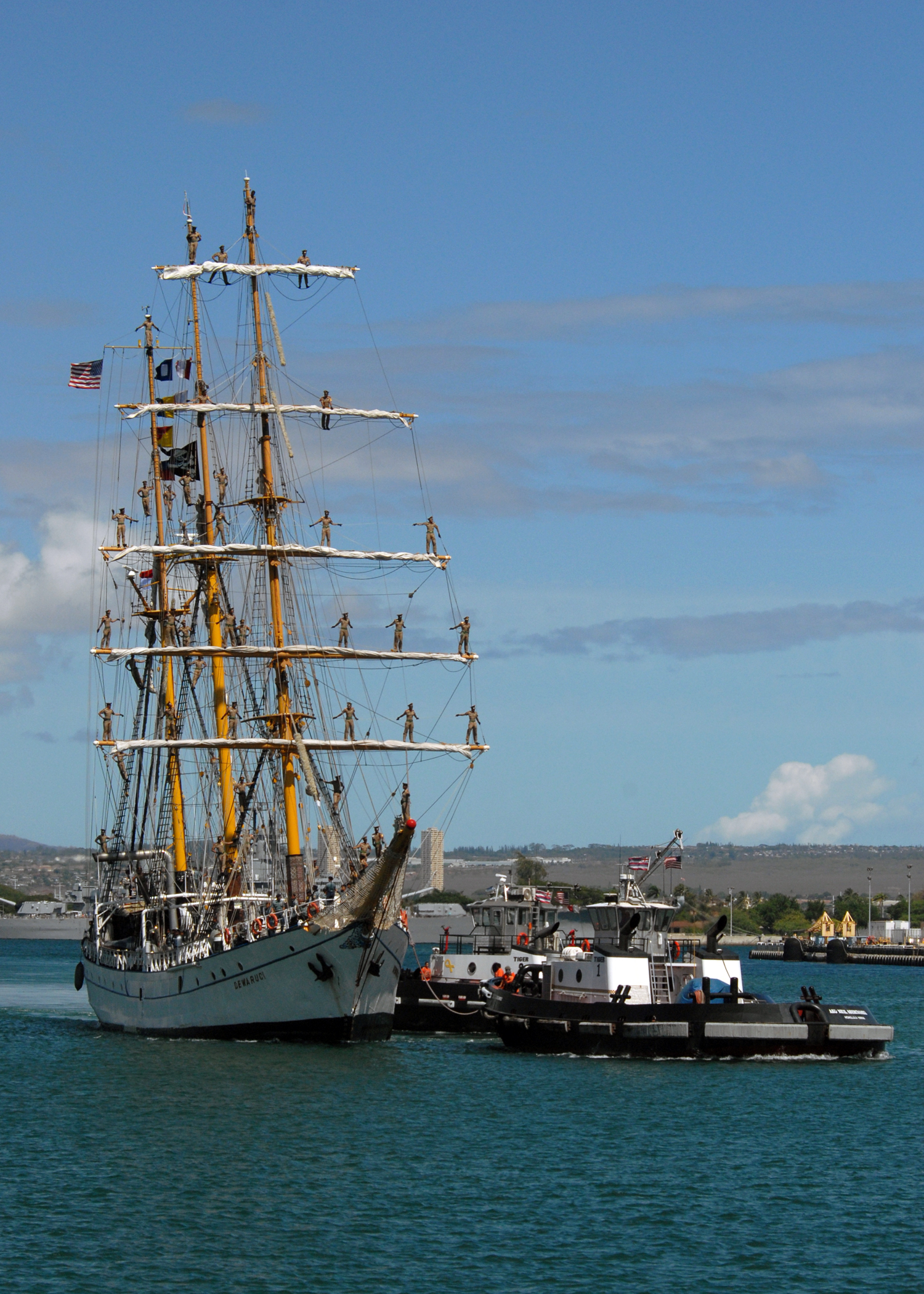 PEARL HARBOR, Hawaii (Sept. 14, 2007) - Tugboats assigned to Naval Station Pearl Harbor assist Indonesian naval training ship KRI Dewaruci as she prepares to moor at Naval Station Pearl Harbor. Dewaruci’s overseas sailing mission provides an avenue for sea training of Indonesian naval cadets and promotes goodwill in tourism, culture and international relationships. U.S. Navy photo by Mass Communication Specialist 1st Class James E. Foehl (RELEASED)